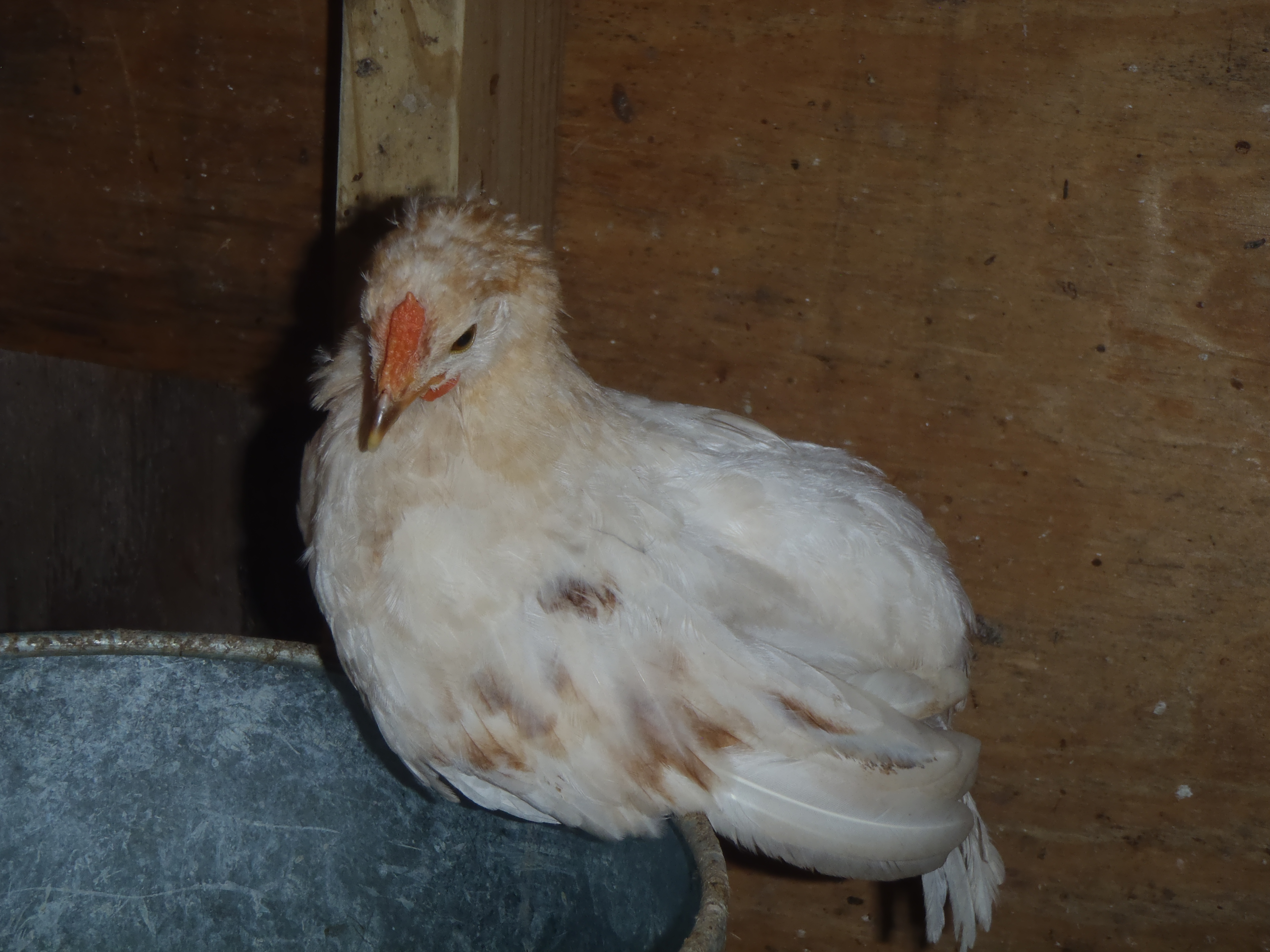 Taken by Ryan Zierke